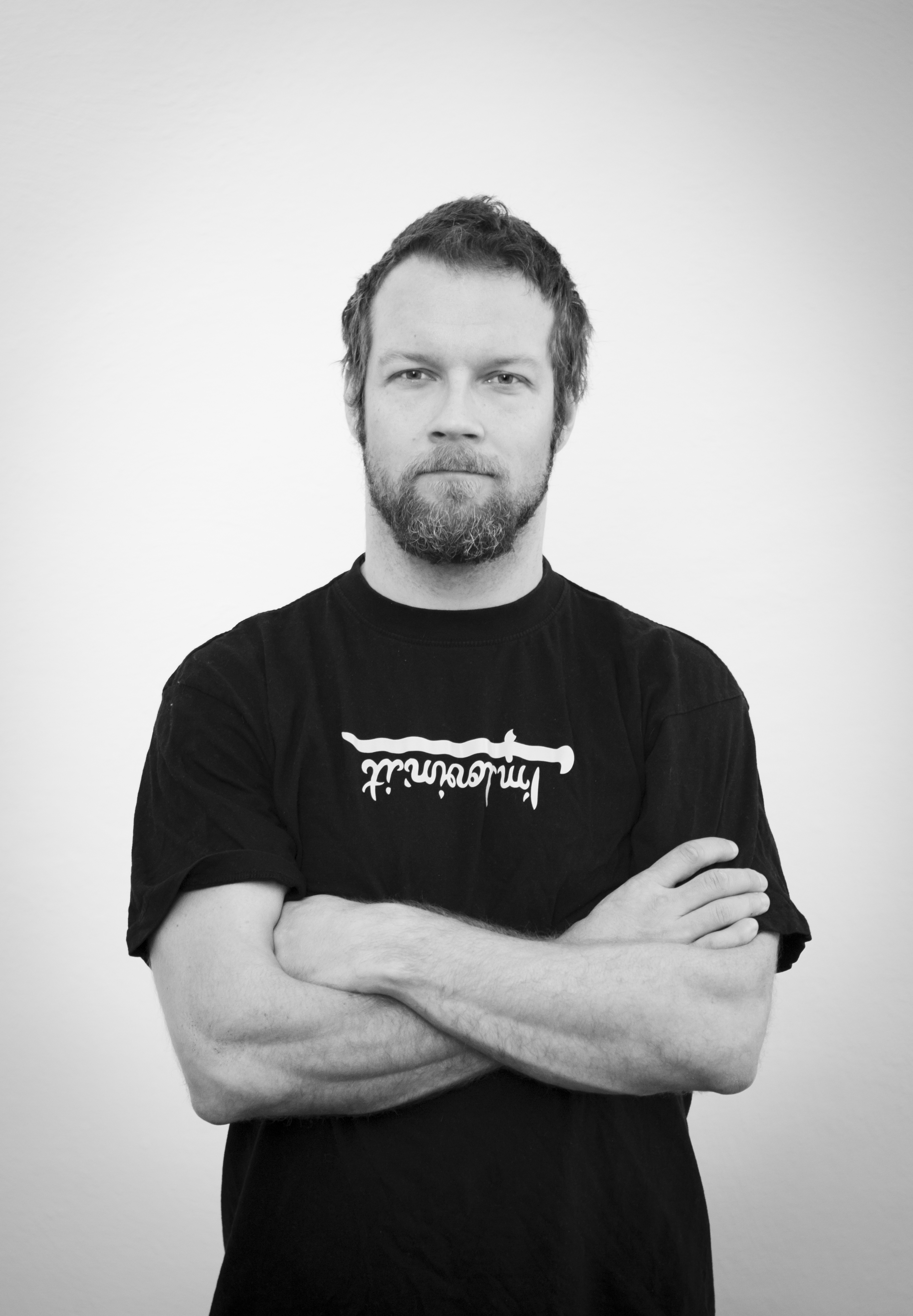 Jani Leinonen In Kiasma "Passport" photo: Kansallisgalleria / Pirje Mykkänen Finnish National gallery / Pirje Mykkänen